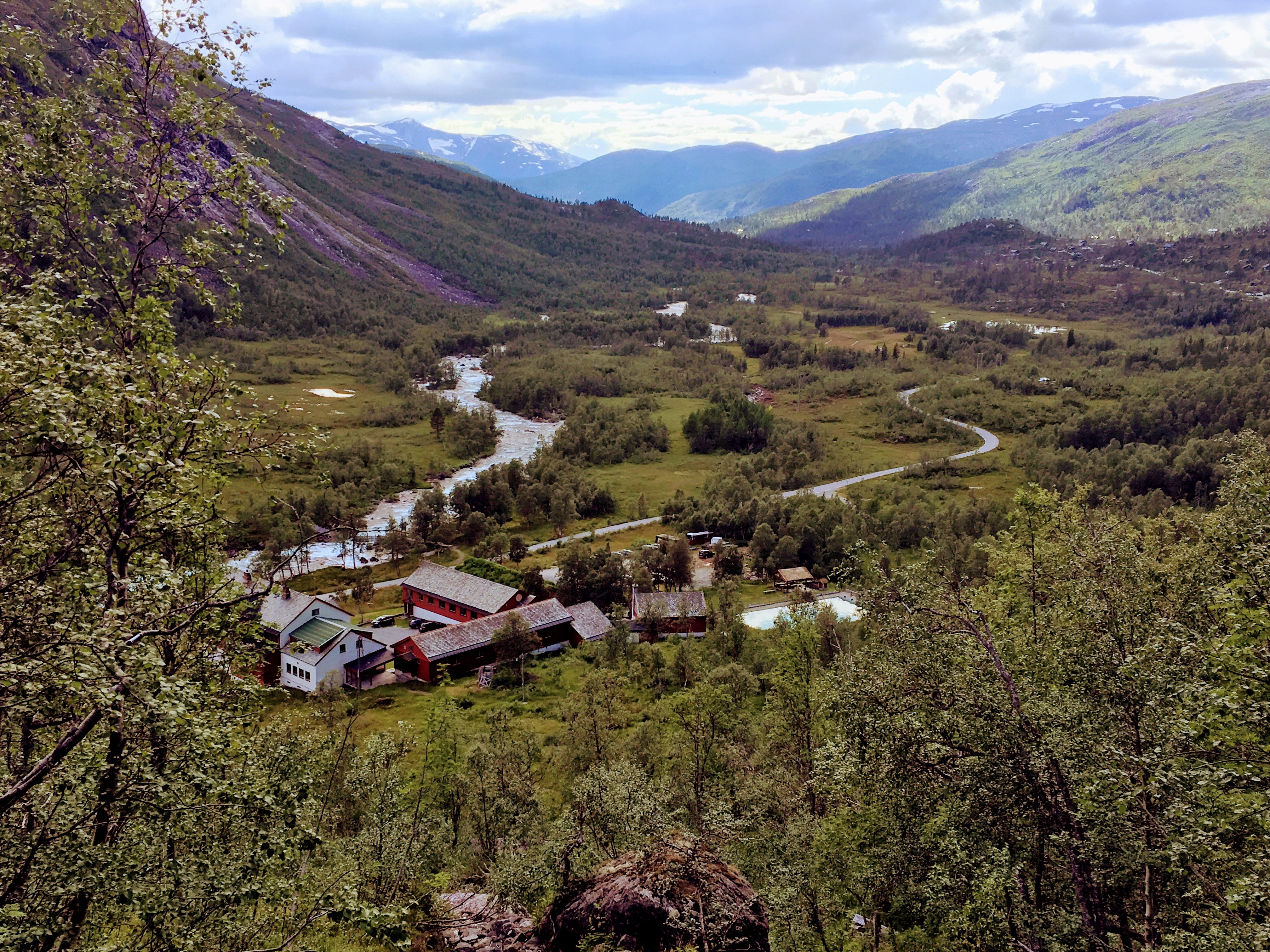 View of the Mjølfjell Youth Hostel. Taken from the Ørneberget rail station. As seen a partly cloudy July afternoon.